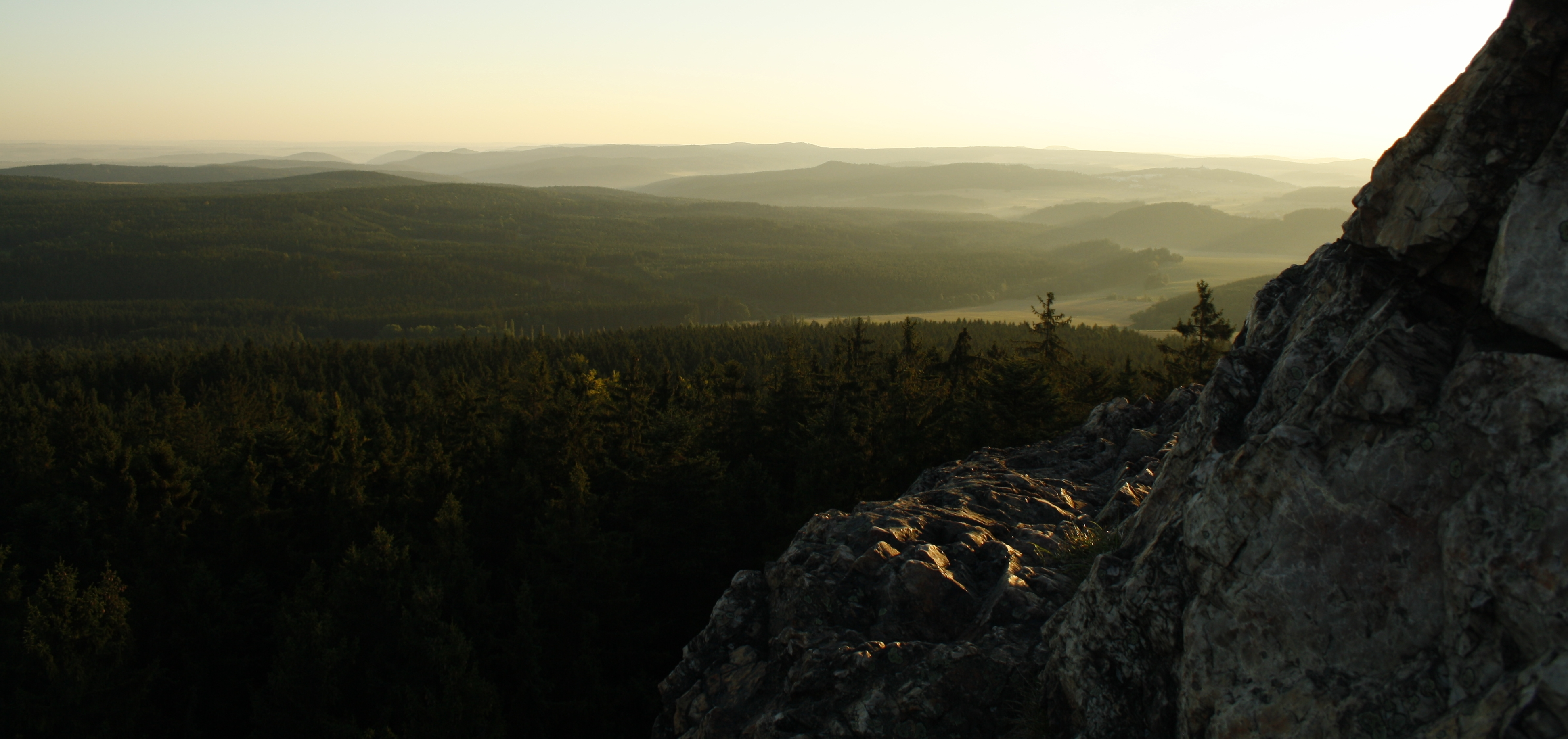 Nature park Radeč in Rokycany District, Czech Republic